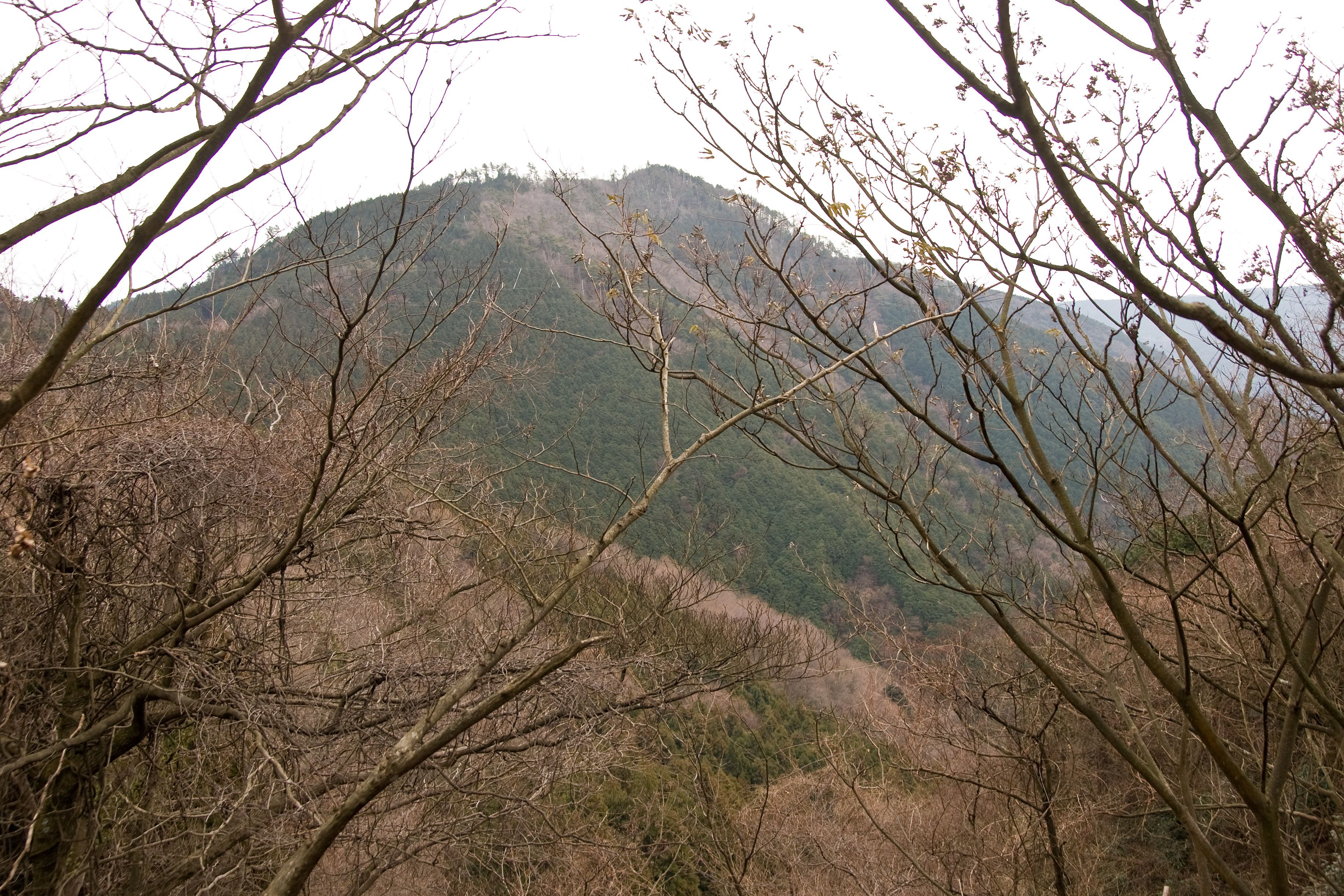 Mt.Tonomine in Hakone volcano, Kanagawa Pref., Japan.